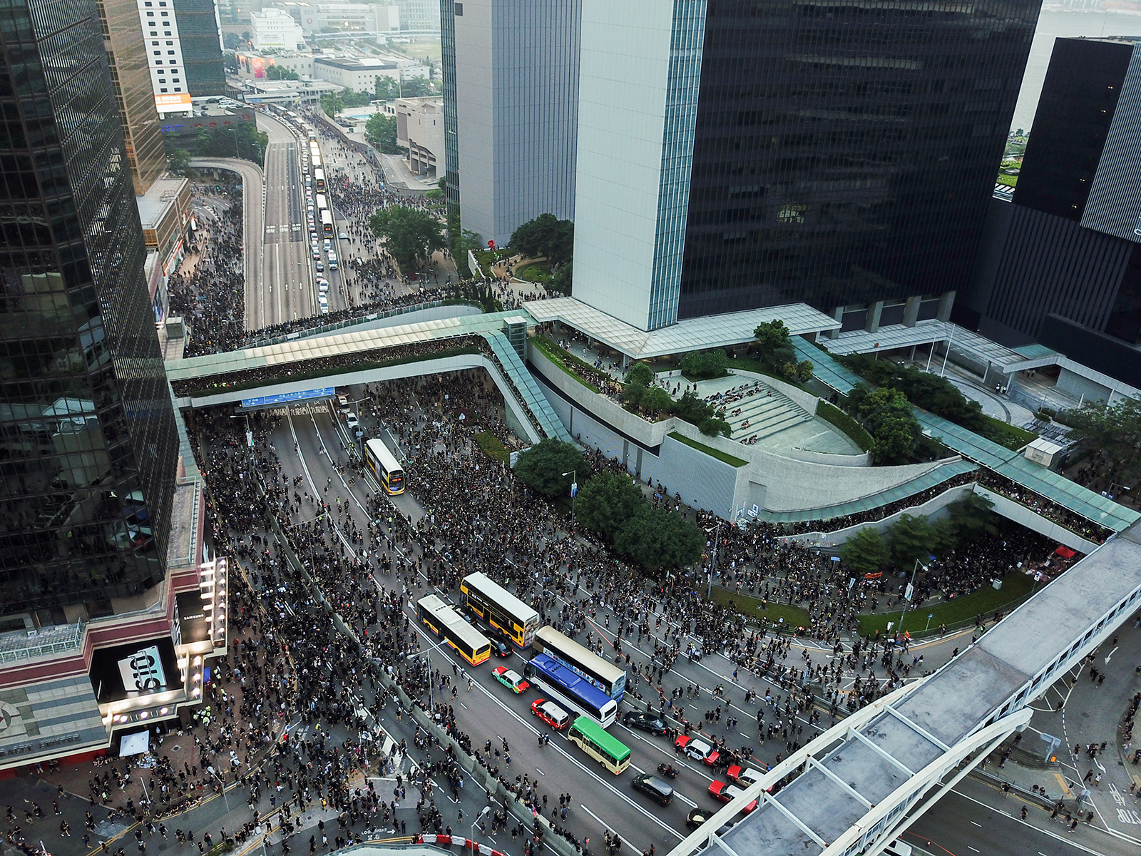 Protesters occupy Harcourt Road